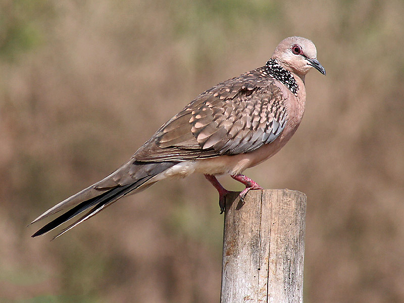 Spotted Dove Streptopelia chinensis in Puri, Orissa, India.